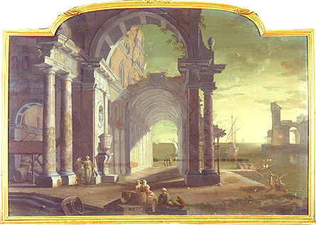 Landscape with Ruinslabel QS:Len,"Landscape with Ruins" label QS:Lfr,"Paysage avec ruines"